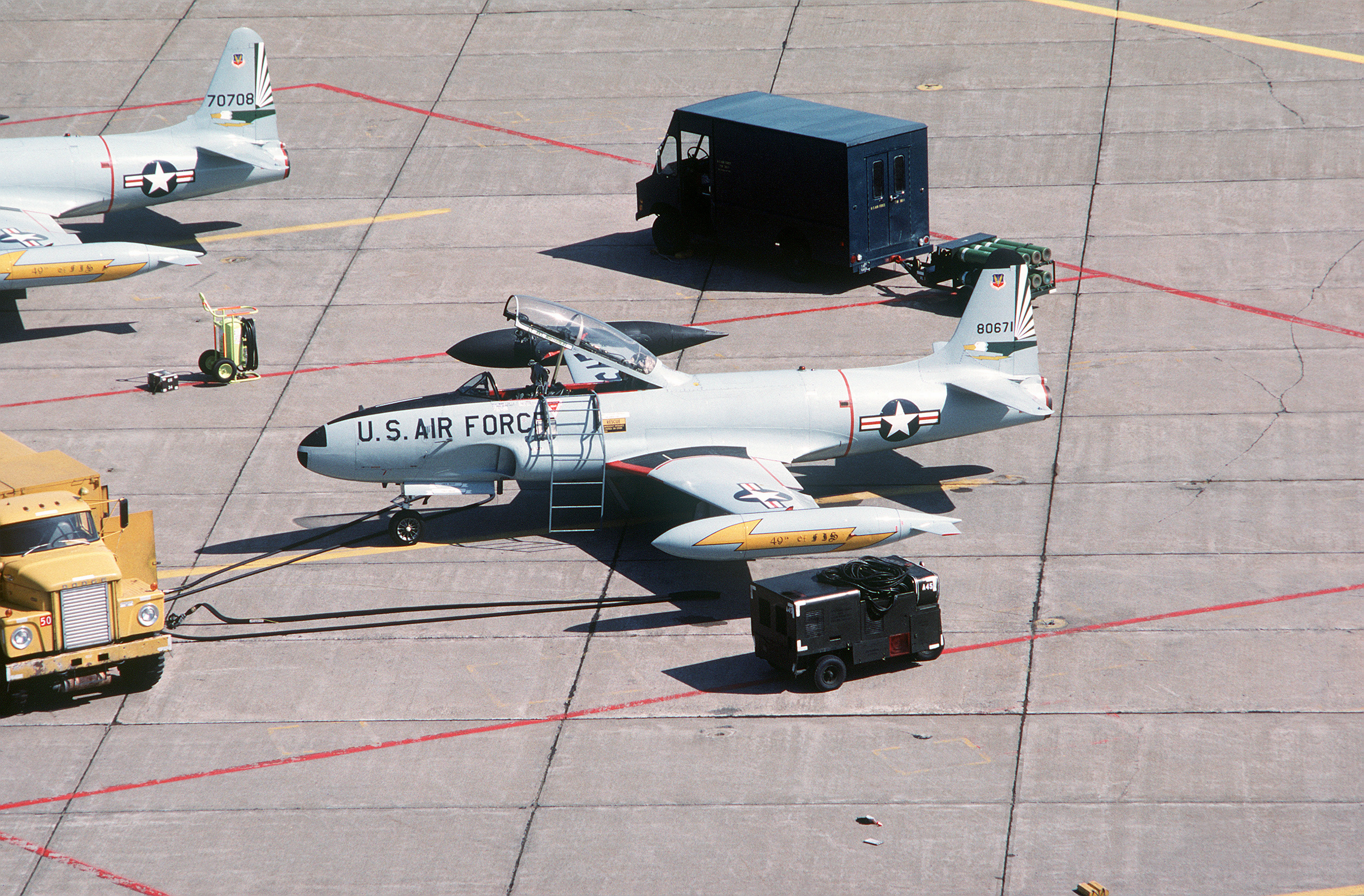 Two U.S. Air Force Lockheed T-33A T-Bird trainers of the 49th Fighter Interceptor Squadron being refueled at Griffiss Air Force Base, New York (USA), on 2 June 1984. The Lockheed T-33A-5-LO, s/n 58-0671, is today on display at Phoenix Airport, Arizona (USA), painted as 53-5397.